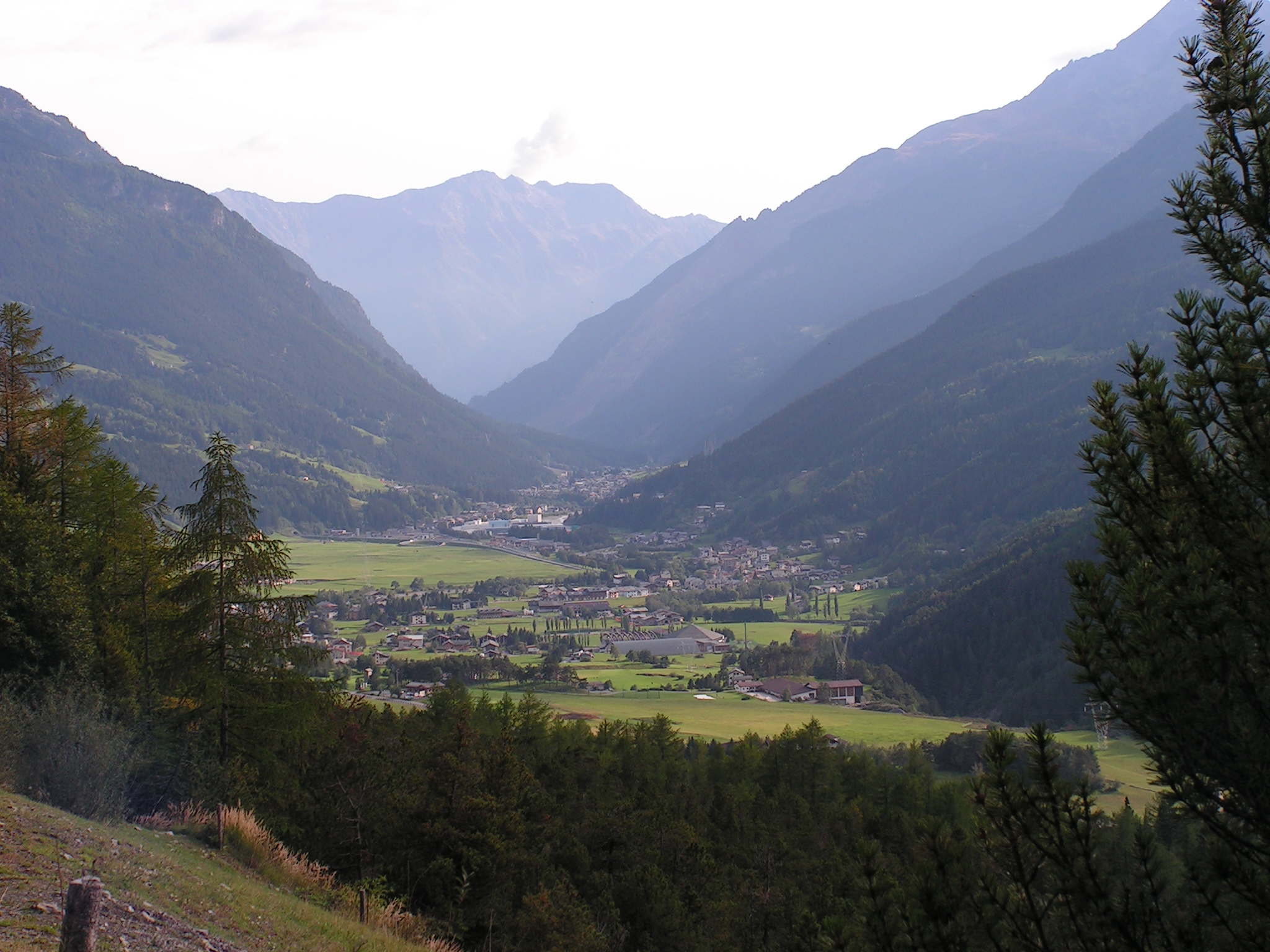 Bormio seen from the Stelvio pass